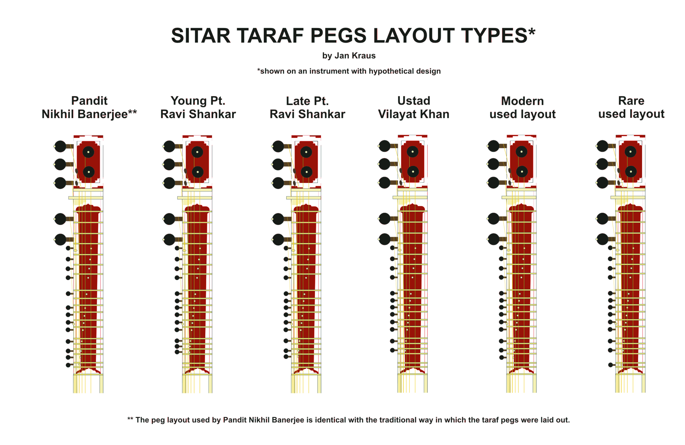 A diagram showing different styles of sitar taraf pegs layout